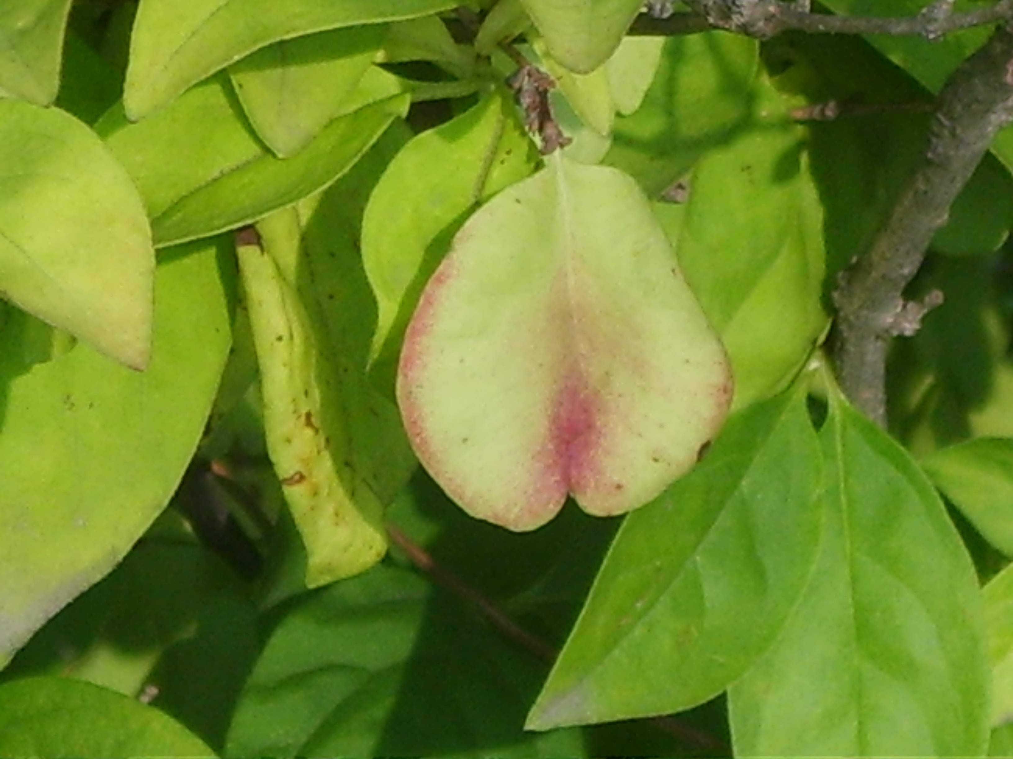 Abeliophyllum distichum In Gyeongbokgung palace, Korea